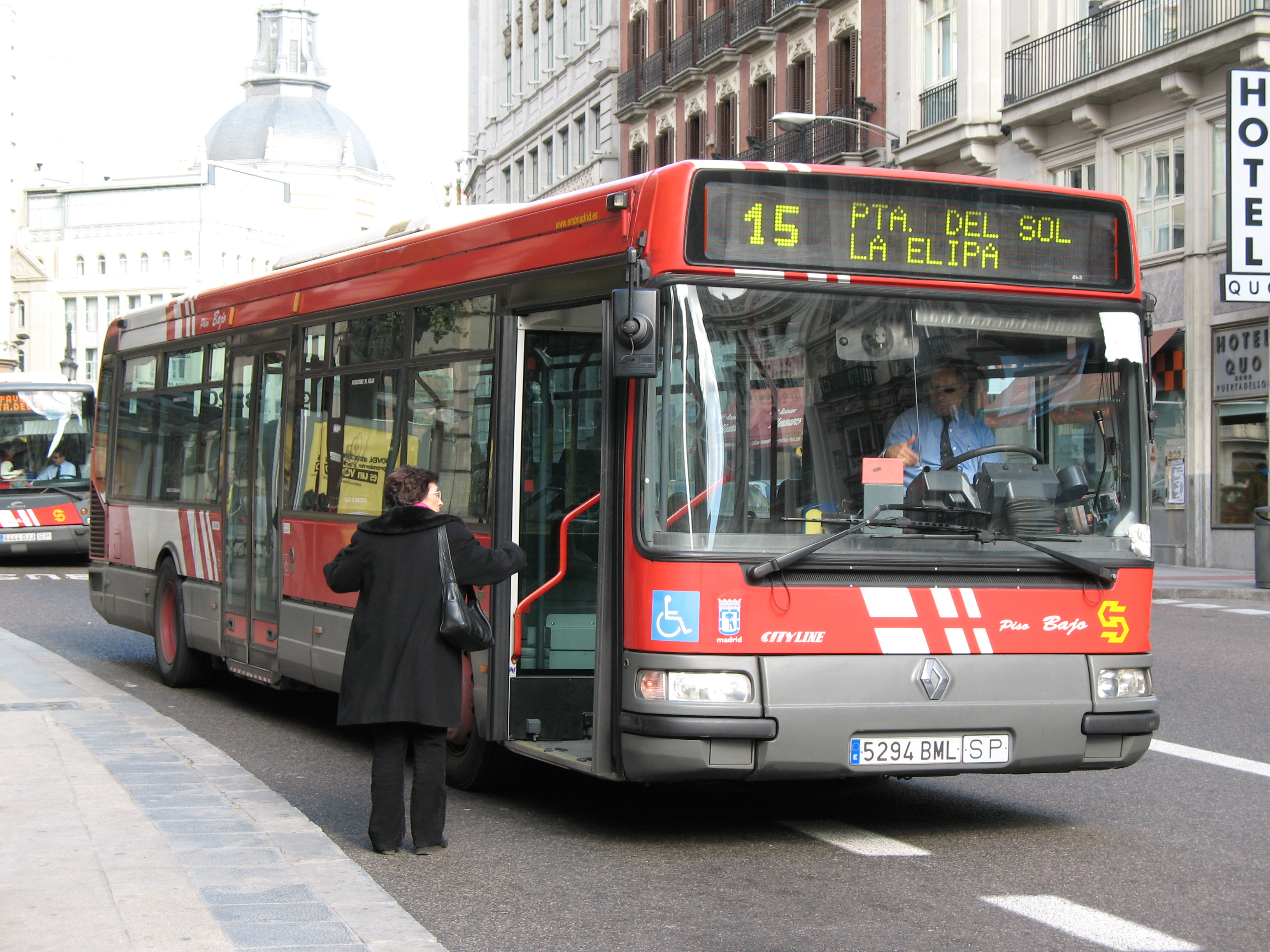 EMT Madrid line 15 bus at Sevilla street.